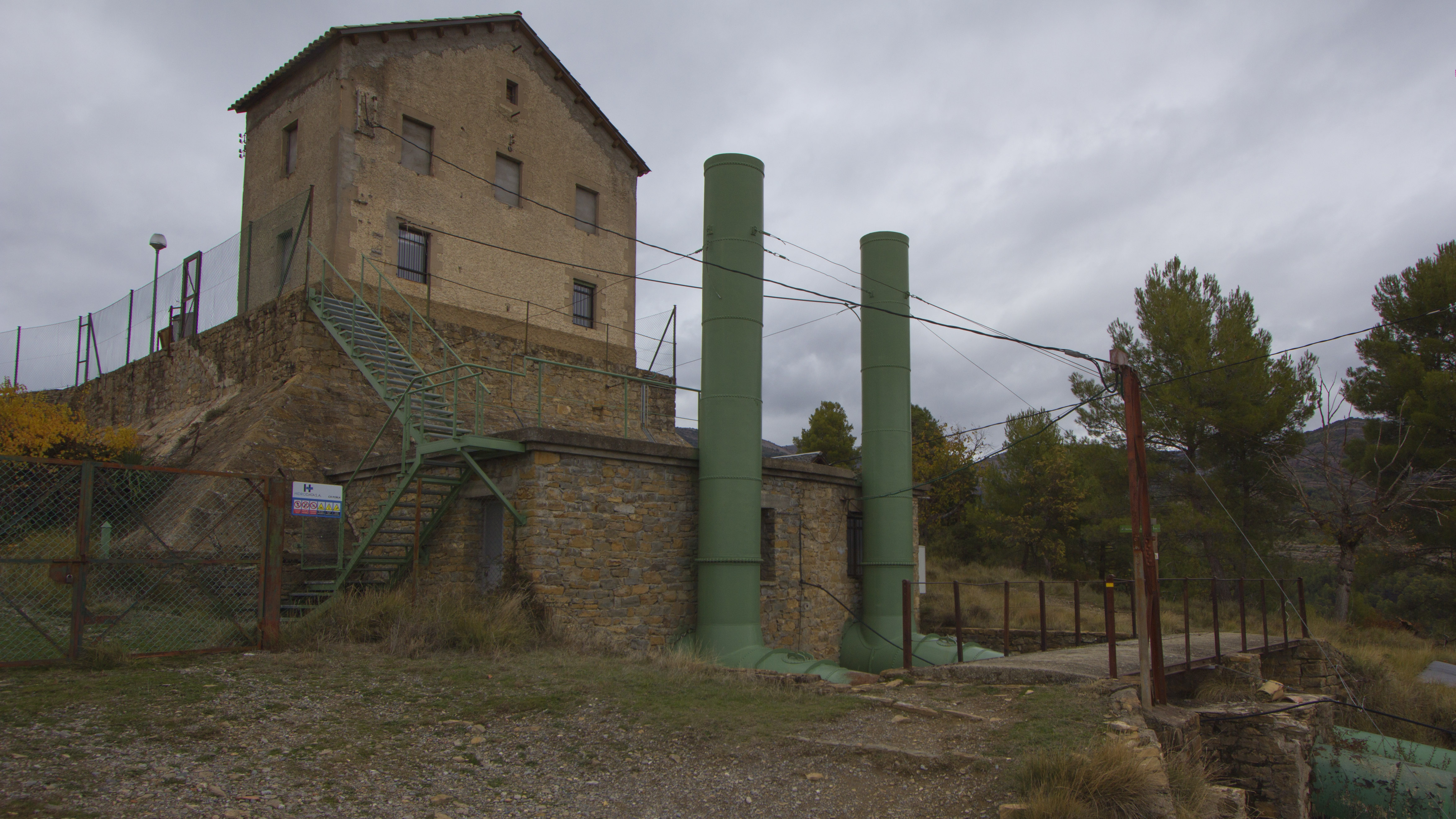 Air pipes at Pobla de Segur hydropower plant (Catalonia)